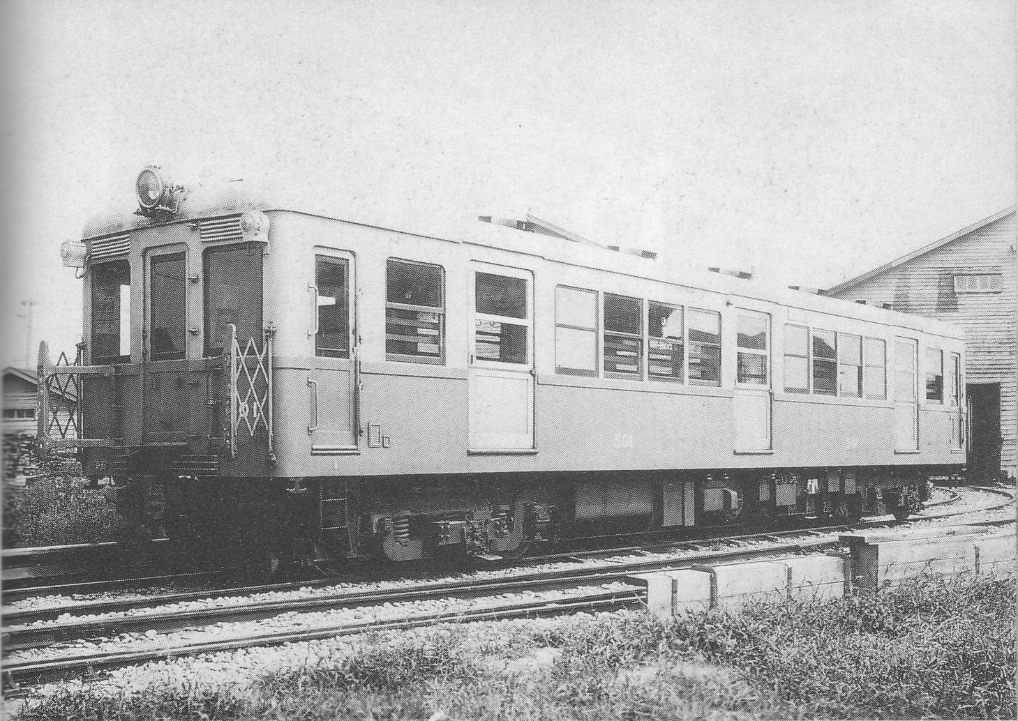 Osaka Municipal Subway #501. Shooting earlier than 1954.